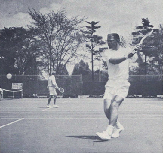 Photograph of Ray Senkowski. This work is in the public domain in the United States because it was published in the United States between 1925 and 1977, inclusive, without a copyright notice. For further explanation, see Commons:Hirtle chart as well as a detailed definition of "publication" for public art. Note that it may still be copyrighted in jurisdictions that do not apply the rule of the shorter term for US works (depending on the date of the author's death), such as Canada (50 p.m.a.), Mainland China (50 p.m.a., not Hong Kong or Macao), Germany (70 p.m.a.), Mexico (100 p.m.a.), Switzerland (70 p.m.a.), and other countries with individual treaties.